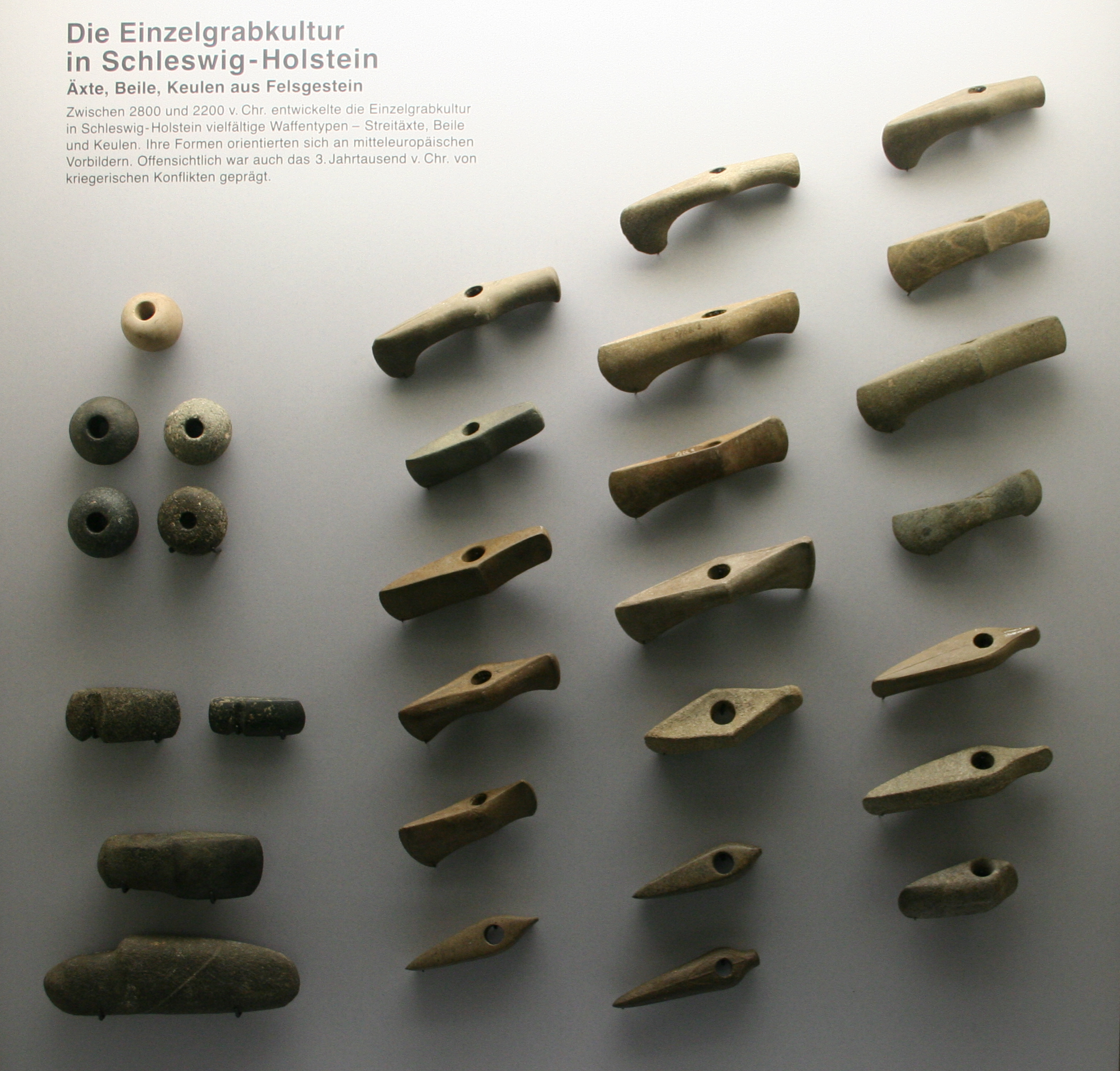 Archaeological state museum Schleswig-Holstein, Gottorf Castle